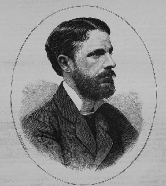 Portrait of Károly Khuen-Héderváry